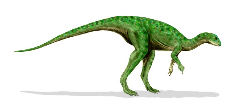 Othniellosaurus consors, an Ornithopoda from the Late Jurassic of North America (based on the skeletal drawing by Scott Hartman)